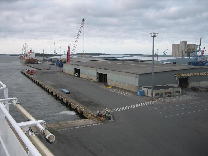 Port of Rauma in Rauma, Finland.